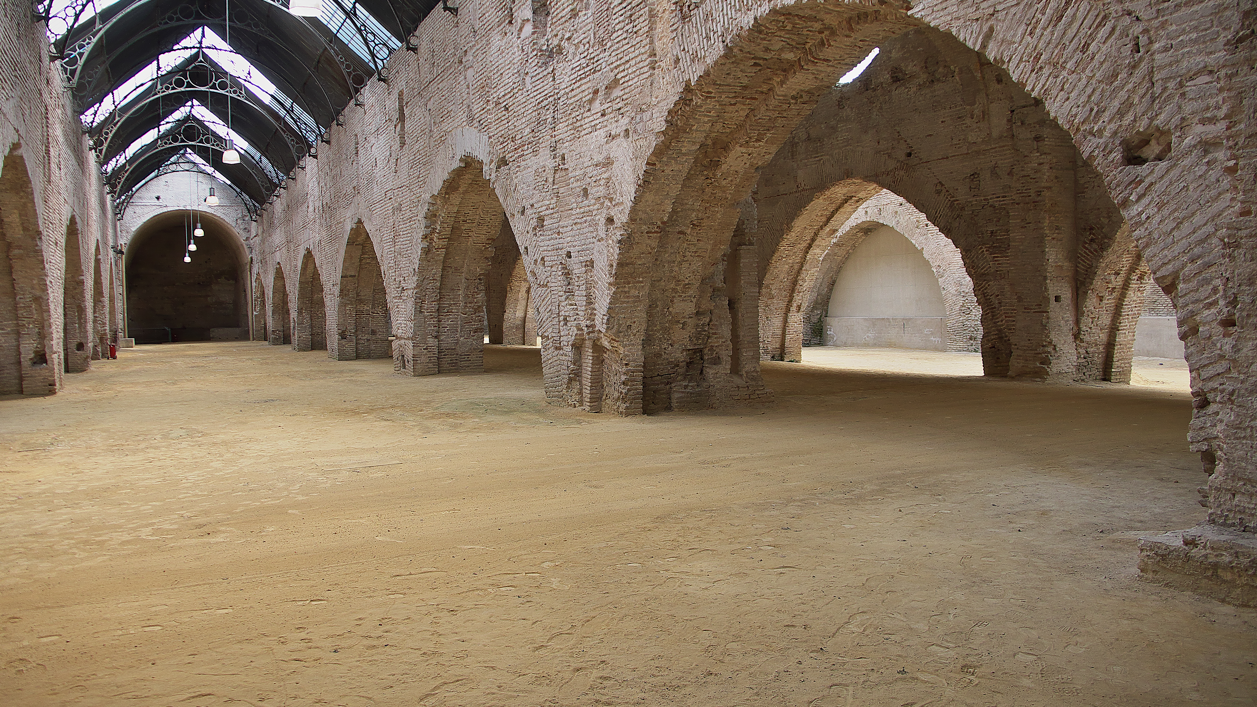 Seville Royal Dockyards